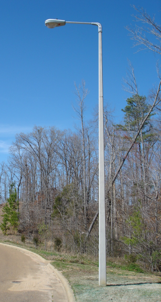 Ossworks, light pole made from reinforced concrete. Approximately 25 ft (7.5 m) tall. Pole is tapered with a square base of approximately 8 inches (20 cm) and 4 inches (10 cm) at the top. Head 90 degree bended.